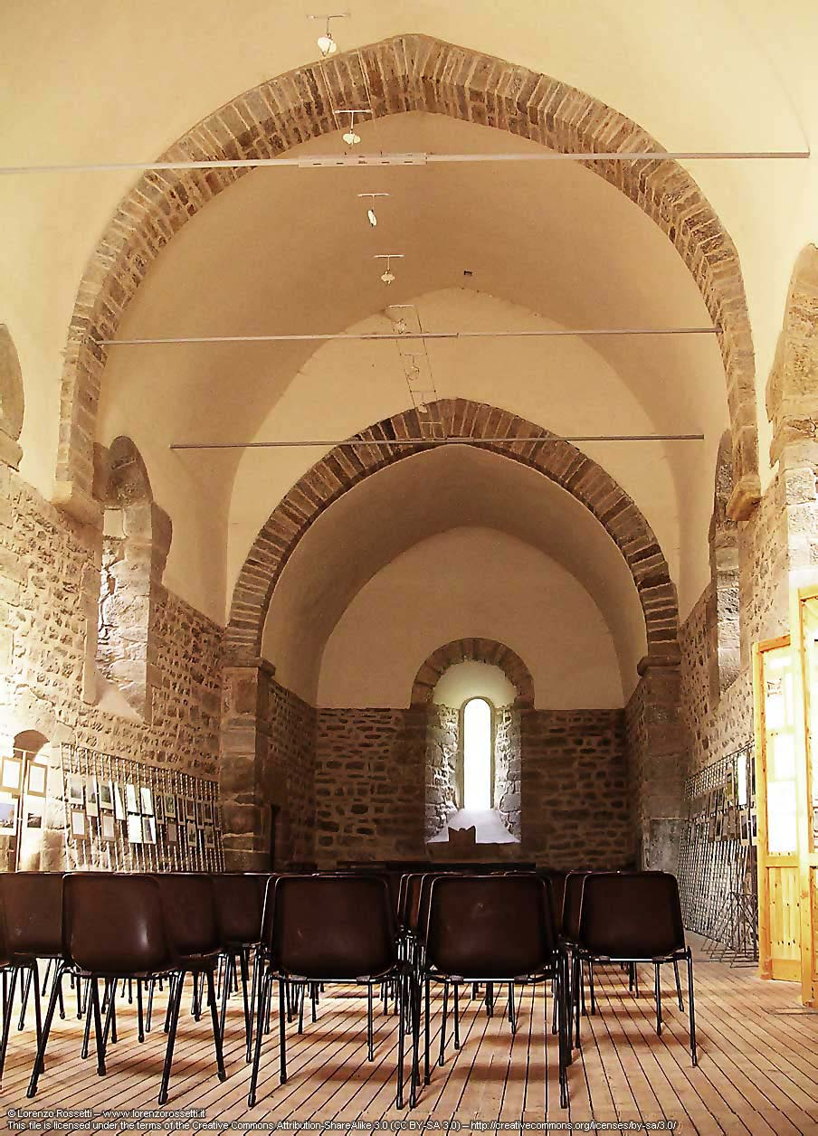 Church of the charterhouse of Montebenedetto, Piemonte, Italy